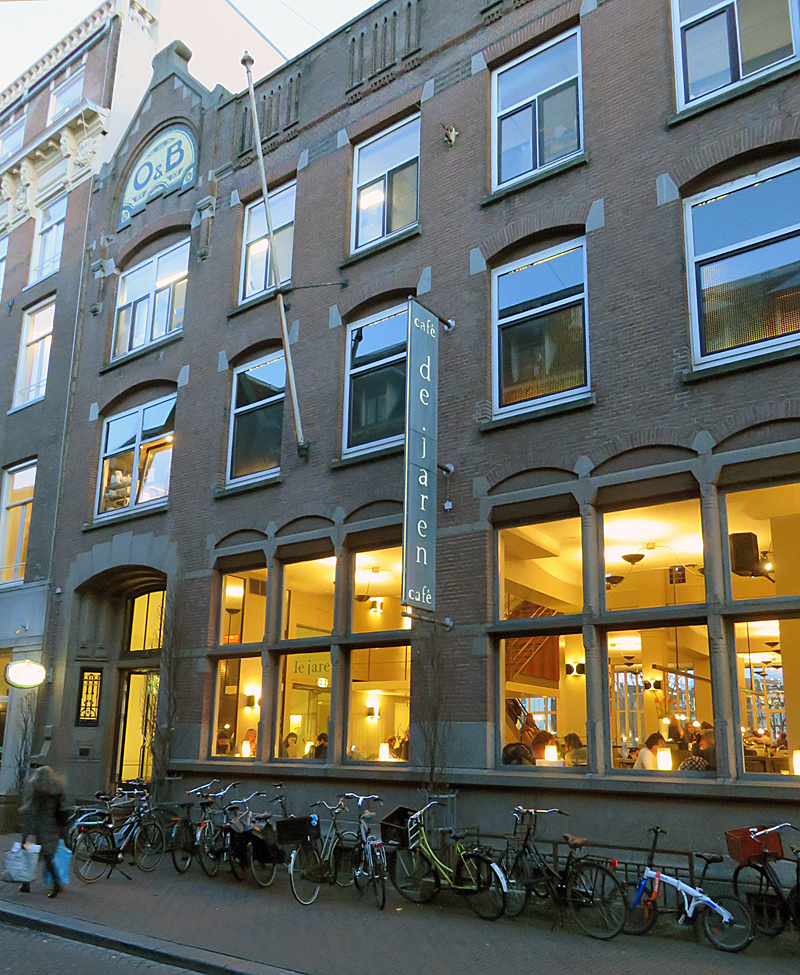 Cafe De Jaren, Nieuwe Doelenstraat 20-22 in Amsterdam